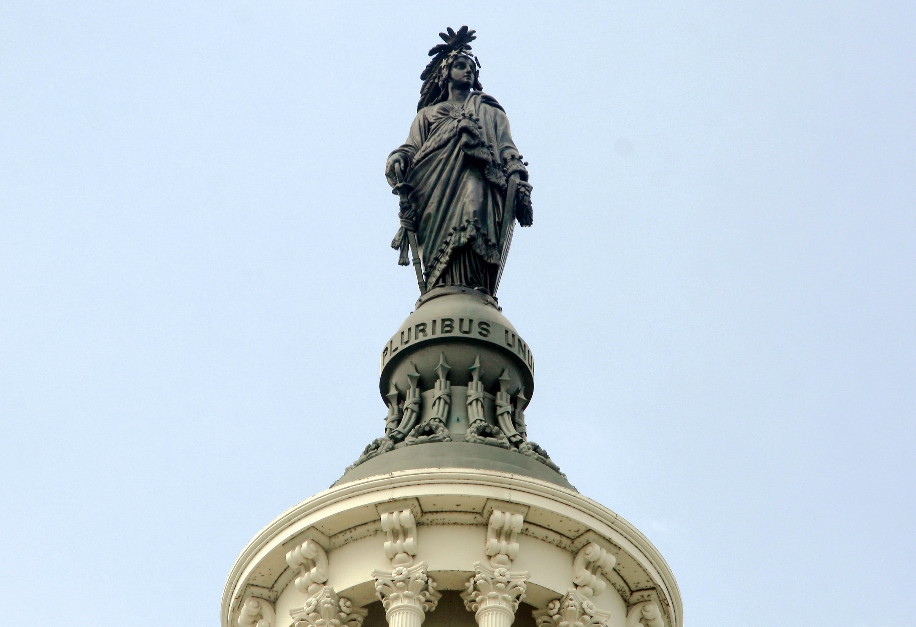 The Statue of Freedom on the dome of the United States Capitol in Washington, D.C.